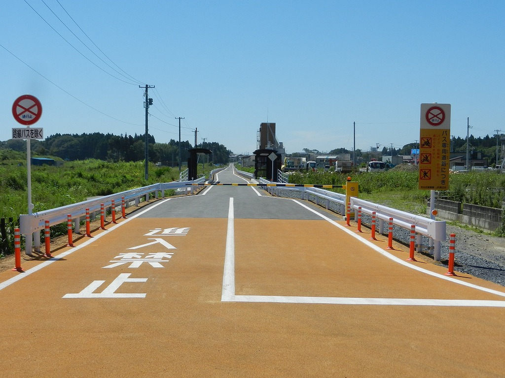 JR East Kesennuma Line BRT road at Saichi Station